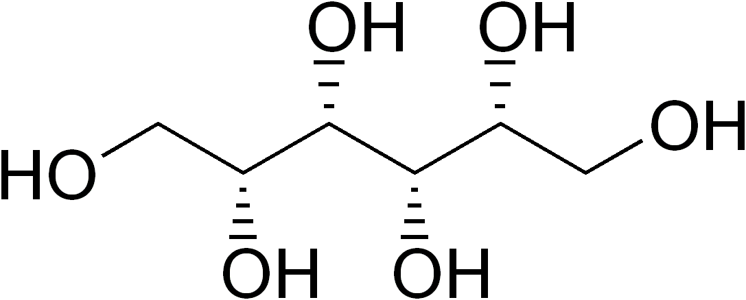 chemical structure of iditol